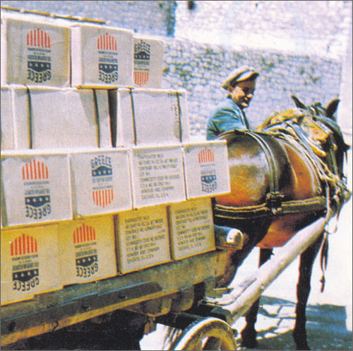 Donkey carrying U.S. funded supplies to Greece as part of the Truman Doctrine of the Marshall Plan